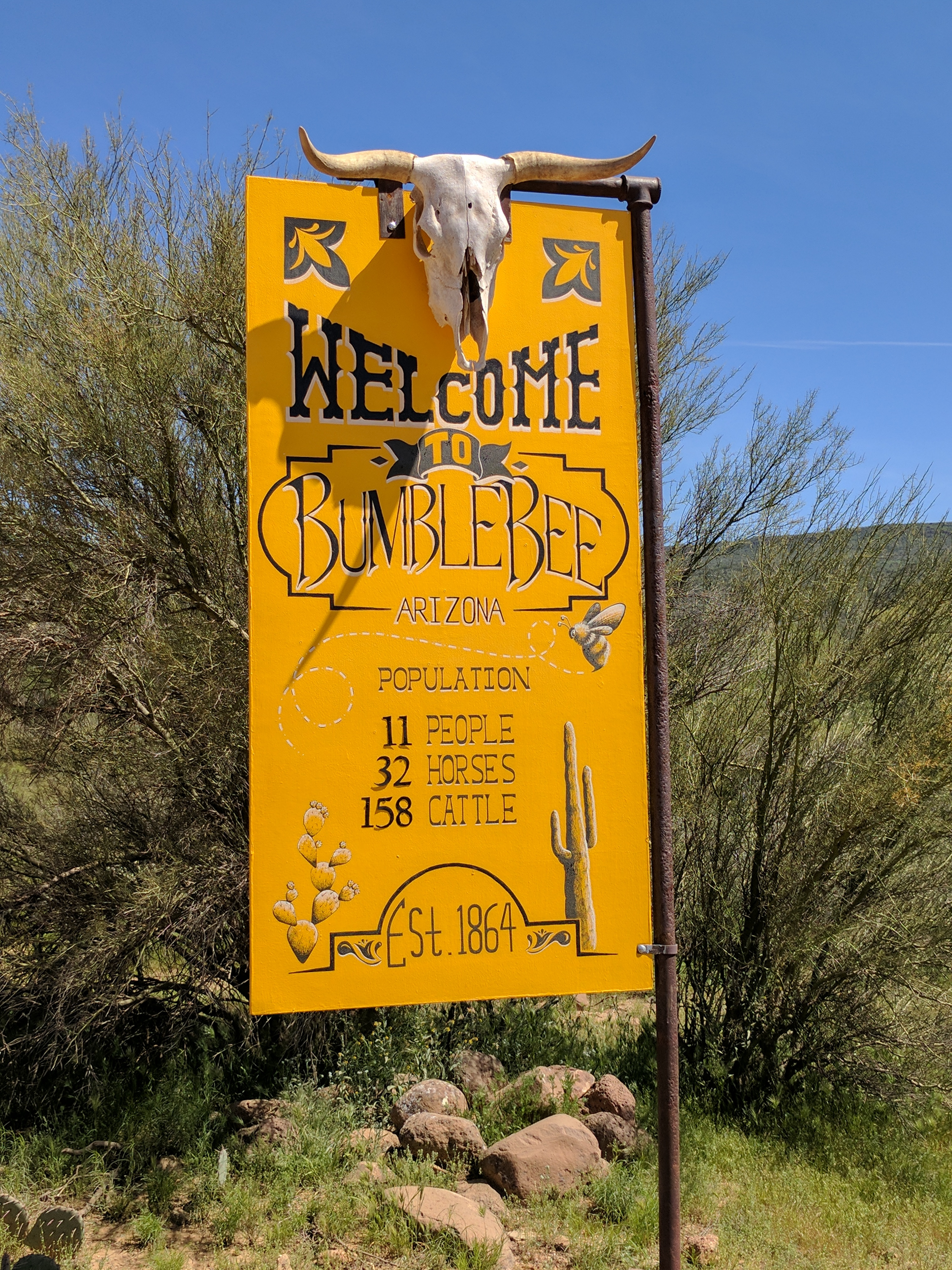 Road sign along Bumble Bee Road showing population